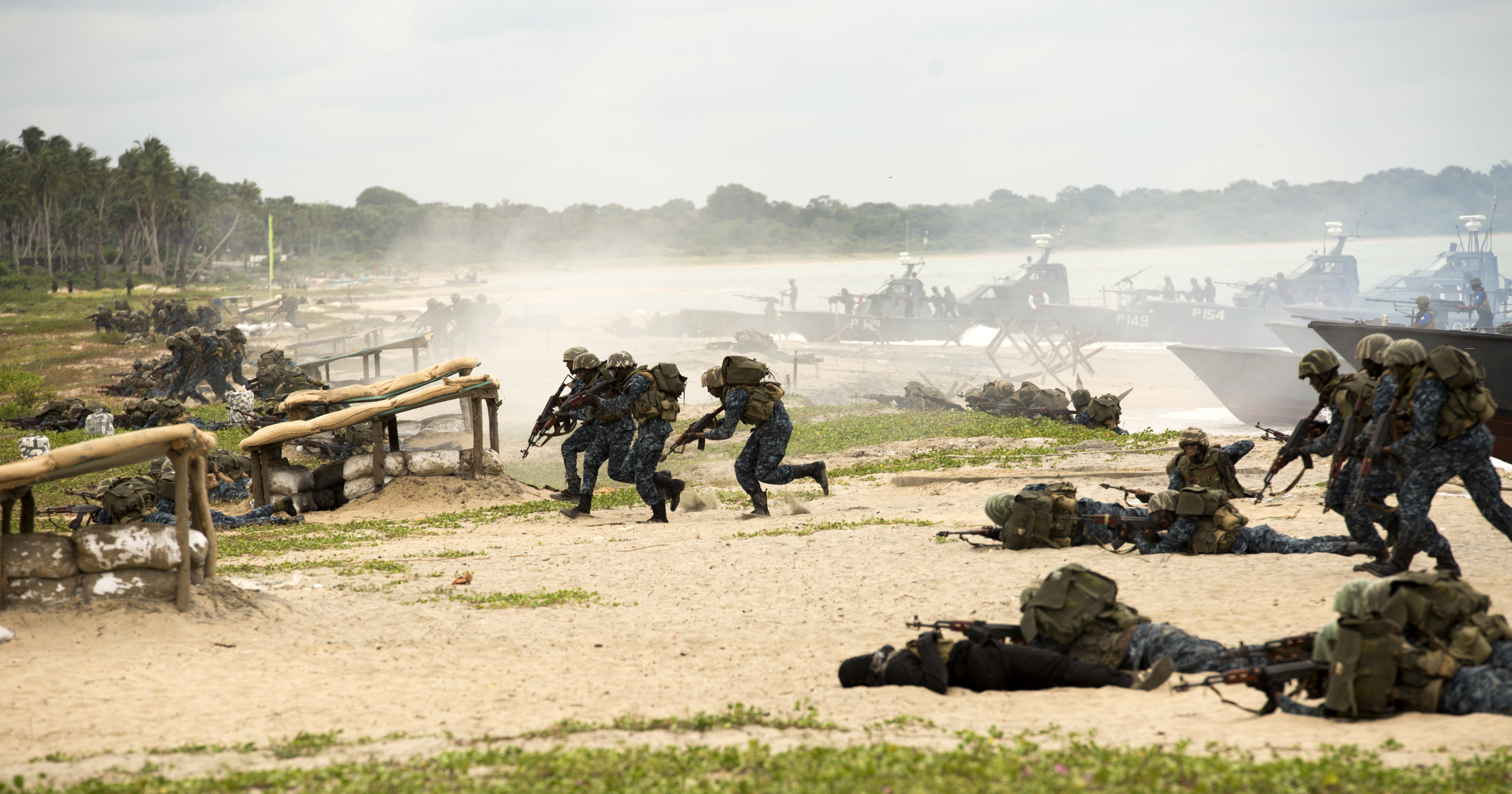 Sri Lankan Marines assault a beach as part of an amphibious capabilities demonstration during the Sri Lanka Marine Corps Boot Camp graduation at Sri Lankan Naval Station Barana in Mullikulum, Sri Lanka, Feb. 27, 2017. The SLMC will be an expeditionary force with specific missions of humanitarian assistance, disaster relief and peacekeeping support. (U.S. Marine Corps photo by Lance Cpl. Robert Sweet)